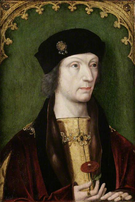 Portrait of Henry VII of England (1457-1509) beneath a fictive, cusped arch, wearing a hat with a jewel and holding a red rose.